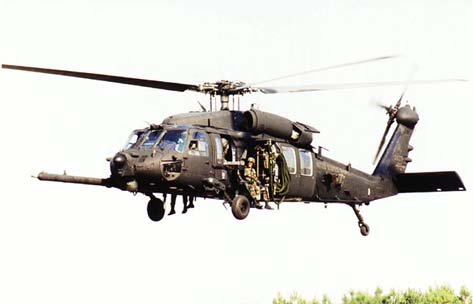 MH-60K Black Hawk of the 160th Special Operations Aviation Regiment (Airborne)